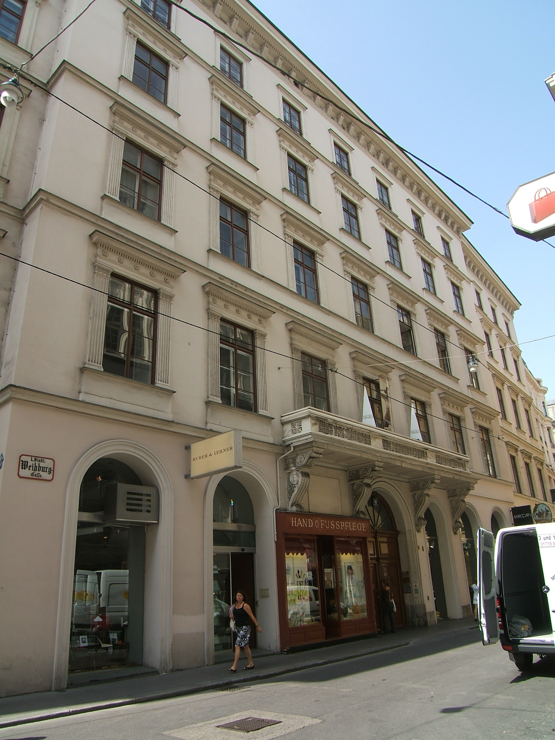 Palais Pereira in Vienna 1st district, Weihburggasse 4